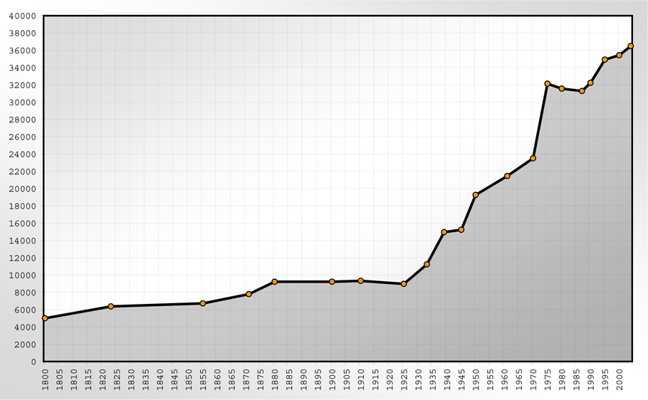 This image shows the population statistics of Schwäbisch Hall (Germany).